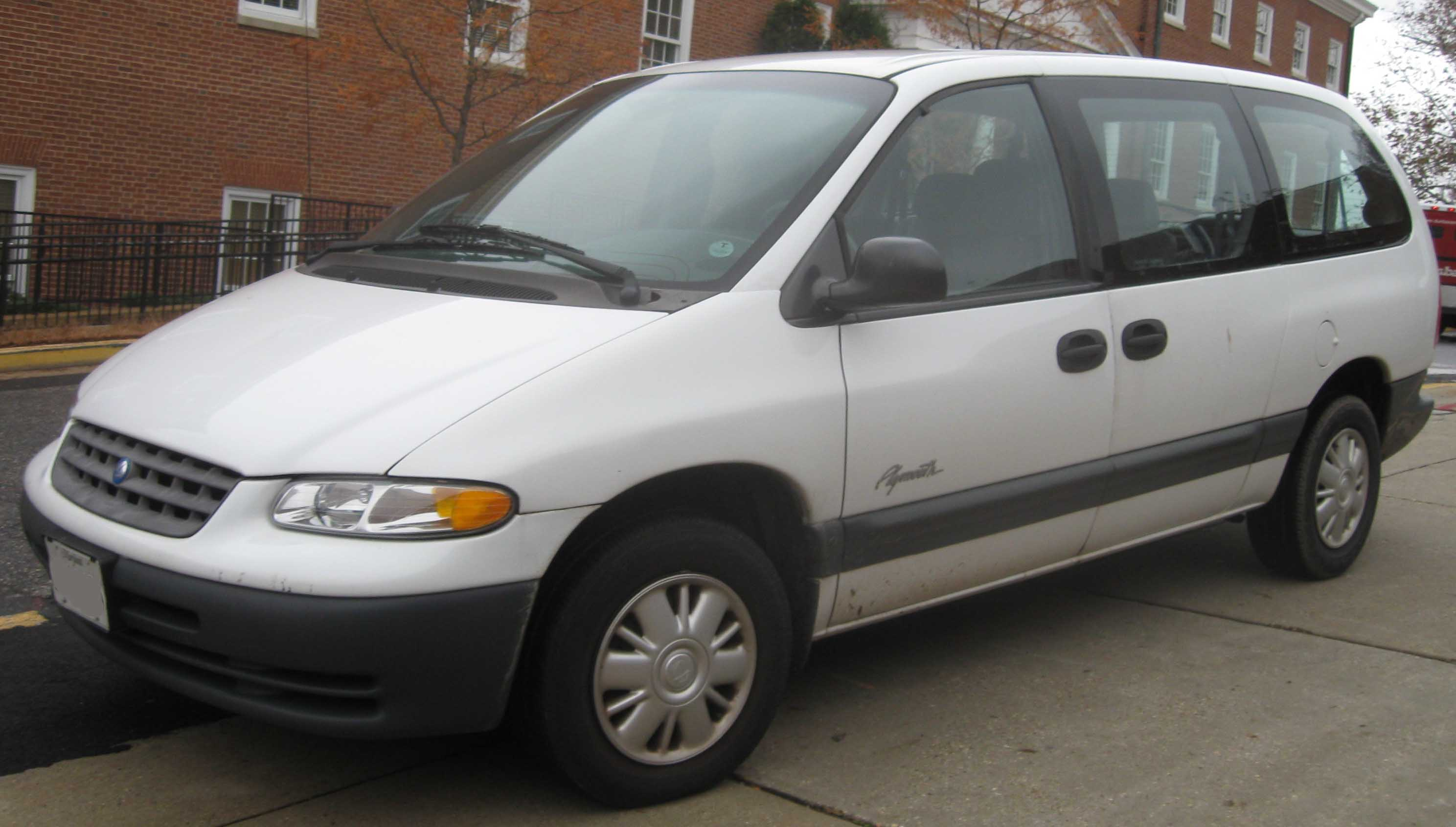 1997-2000 Plymouth Grand Voyager photographed in College Park, Maryland, USA.